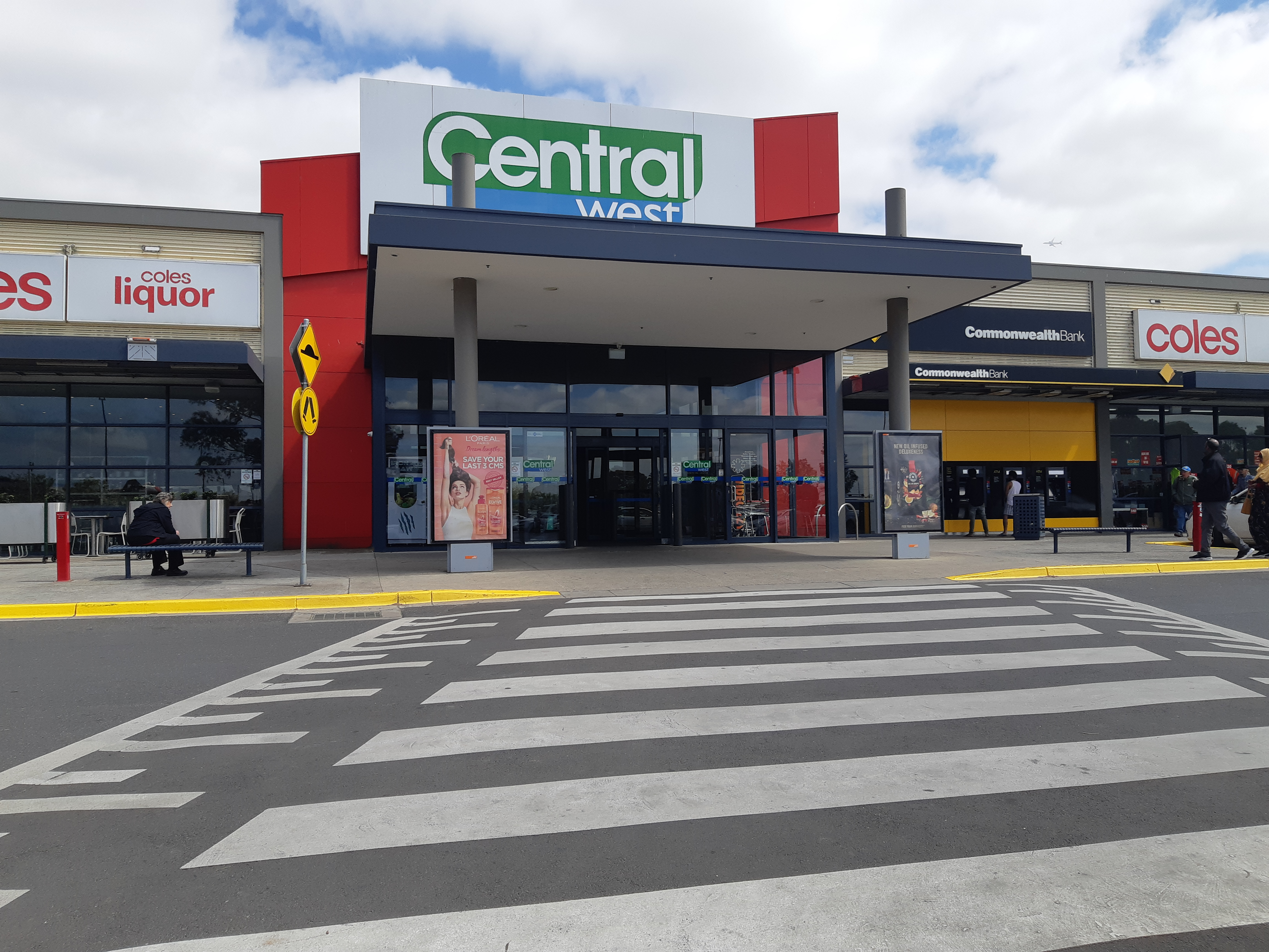 CentralWest SC Footscray